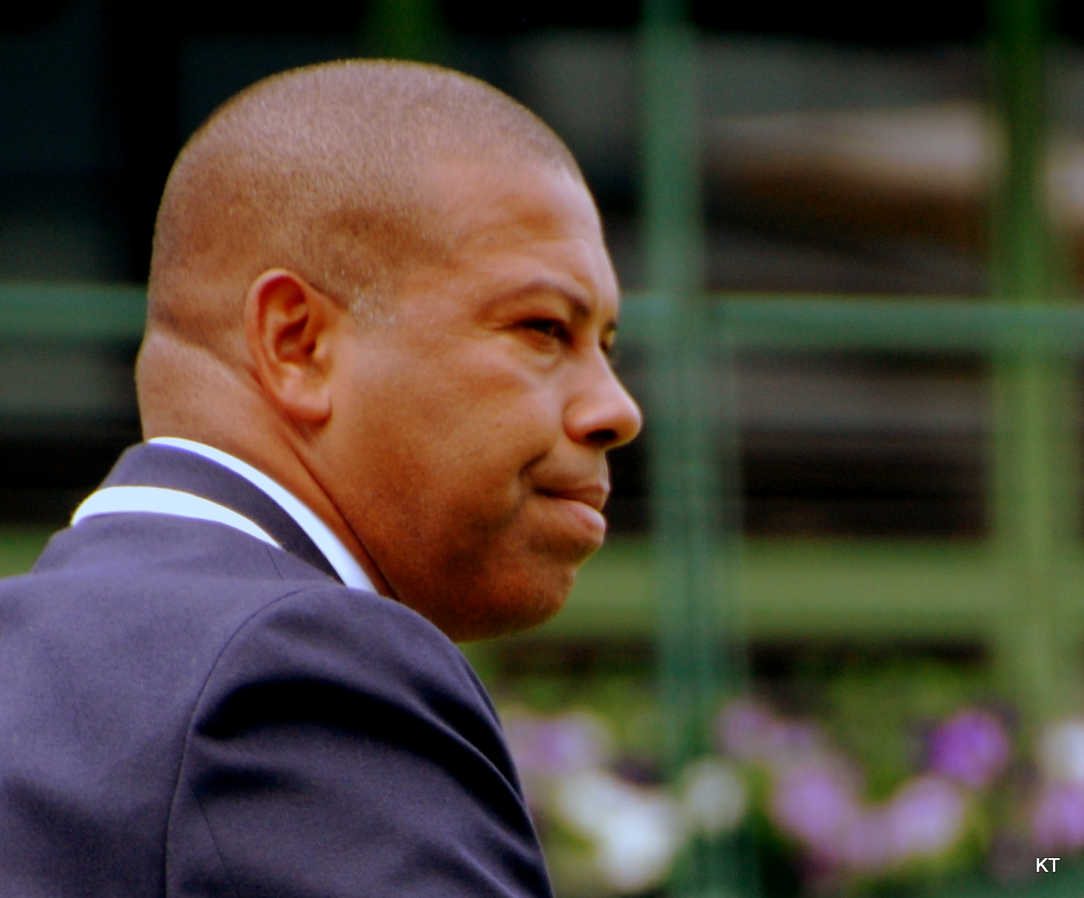 Carlos Bernardes umpiring the first round match between Fernando Verdasco & Xavier Malisse.